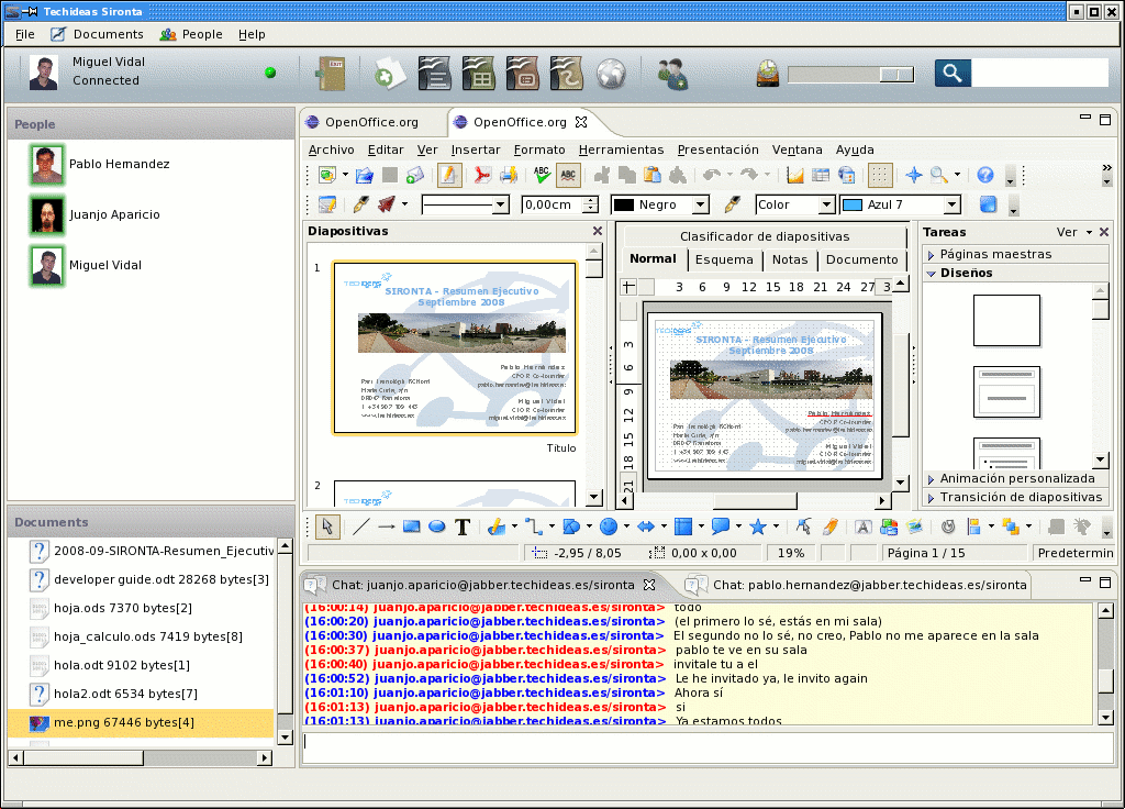 sironta screenshot presentation